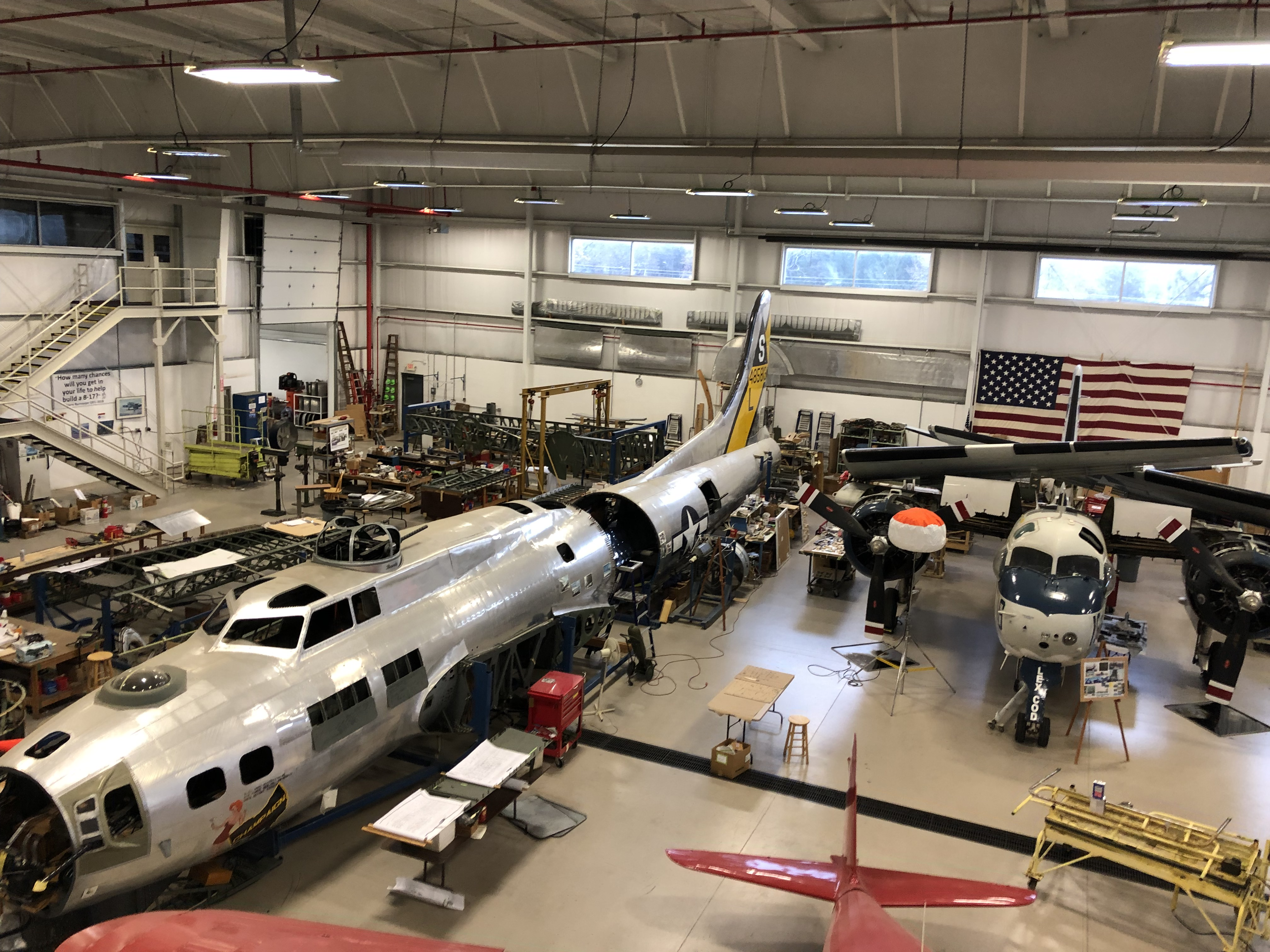 B-17 restoration shown on the left side of the image with a C-1A trader on the right side. A Fairchild F24 can be seen at the bottom of the image